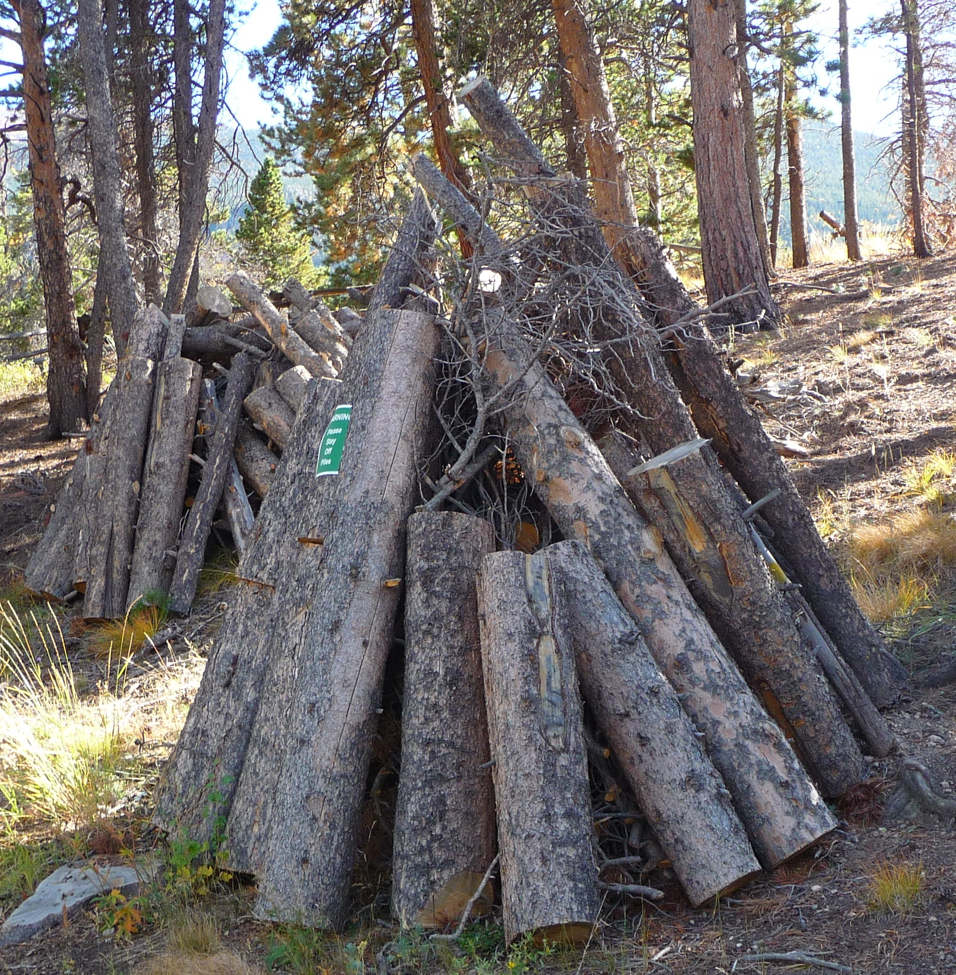 Stack of wood infested with mountain pine beetle, Rocky Mountain National Park, USA